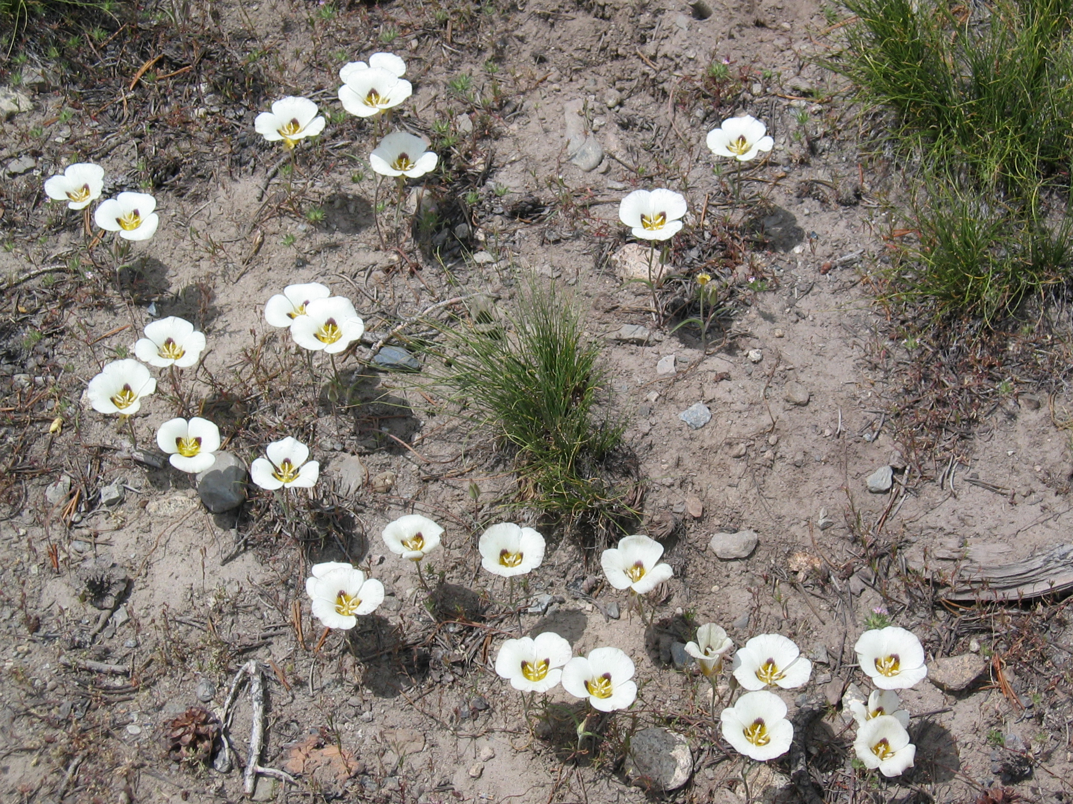 Drift of mariposa lilies (Calochortus leichtlinii), at Agnew Pass. Ansel Adams Wilderness, Sierra Nevada USA.